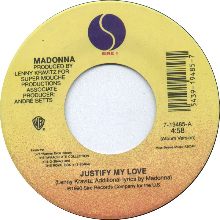 A-side label of U.S. vinyl release of "Justify My Love" by Madonna